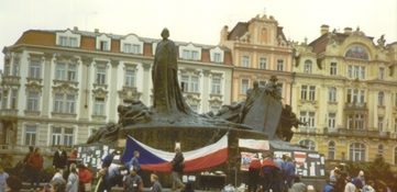 Flaged draped memorial at Old Town Square in November 1989